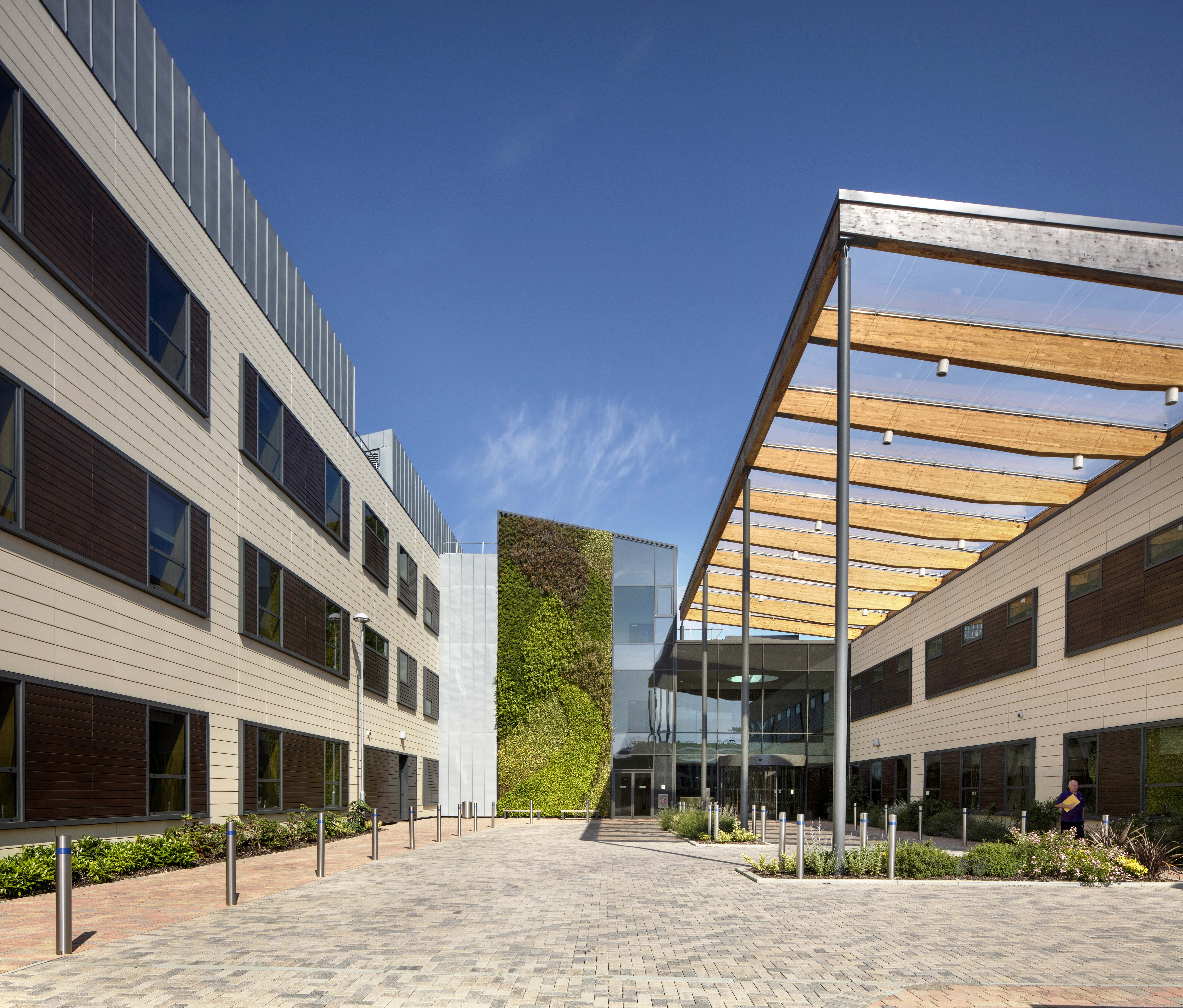 The KIMS Hospital Main Entrance, including living wall.